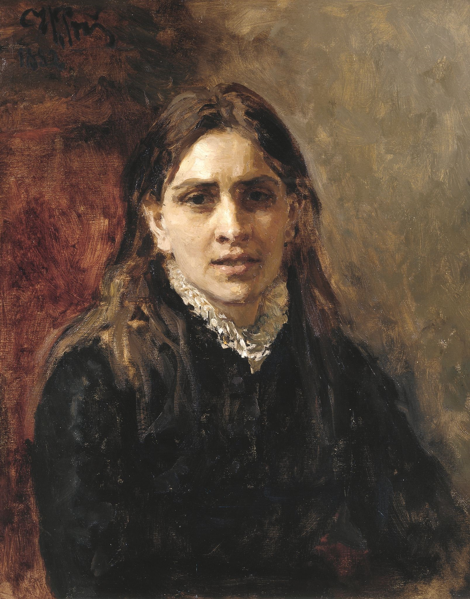 Portrait of actress Pelageya (Polina) Antipevna Strepetova